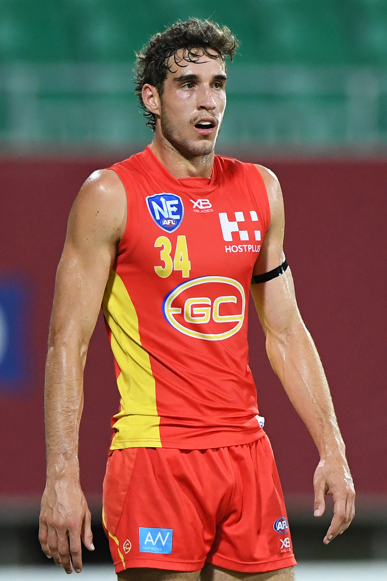 Ben King of Gold Coast during the 2019 NEAFL round 5 match between NT Thunder and Gold Coast at TIO Stadium on Saturday, 4 May 2019 in Darwin, Australia.